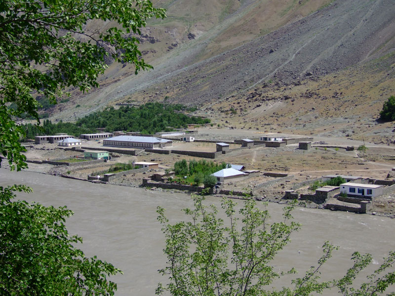 A view of Nusay county in darwaz of Badakhshan provinceТоҷикӣ: Як намои аз шаҳритони нусаи, Дарвоз вилояти бадахшон